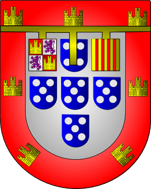 Arms of the Portuguese Prince Ferdinand, Duke of Guarda and of Trancoso. Made by JSobral